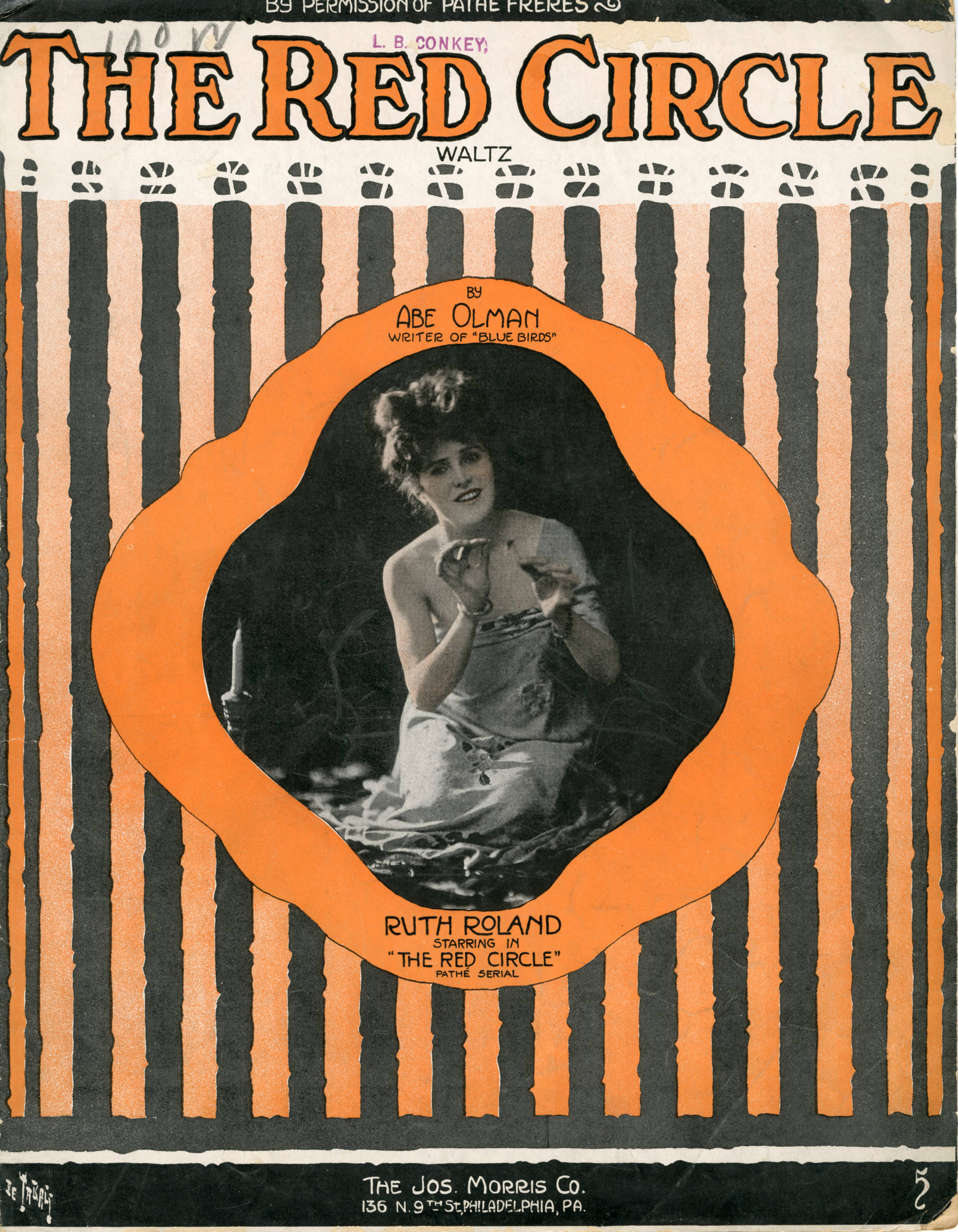 Sheet music cover: "The Red Circle : Waltz" 1 piano score (5 p.) ; 35 cm. Illustrated cover with image of Ruth Roland / DeTakacs. RED CIRCLE (Motion picture : 1915-1916)